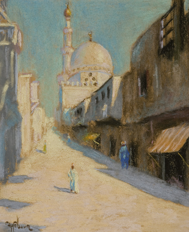 Jerusalem